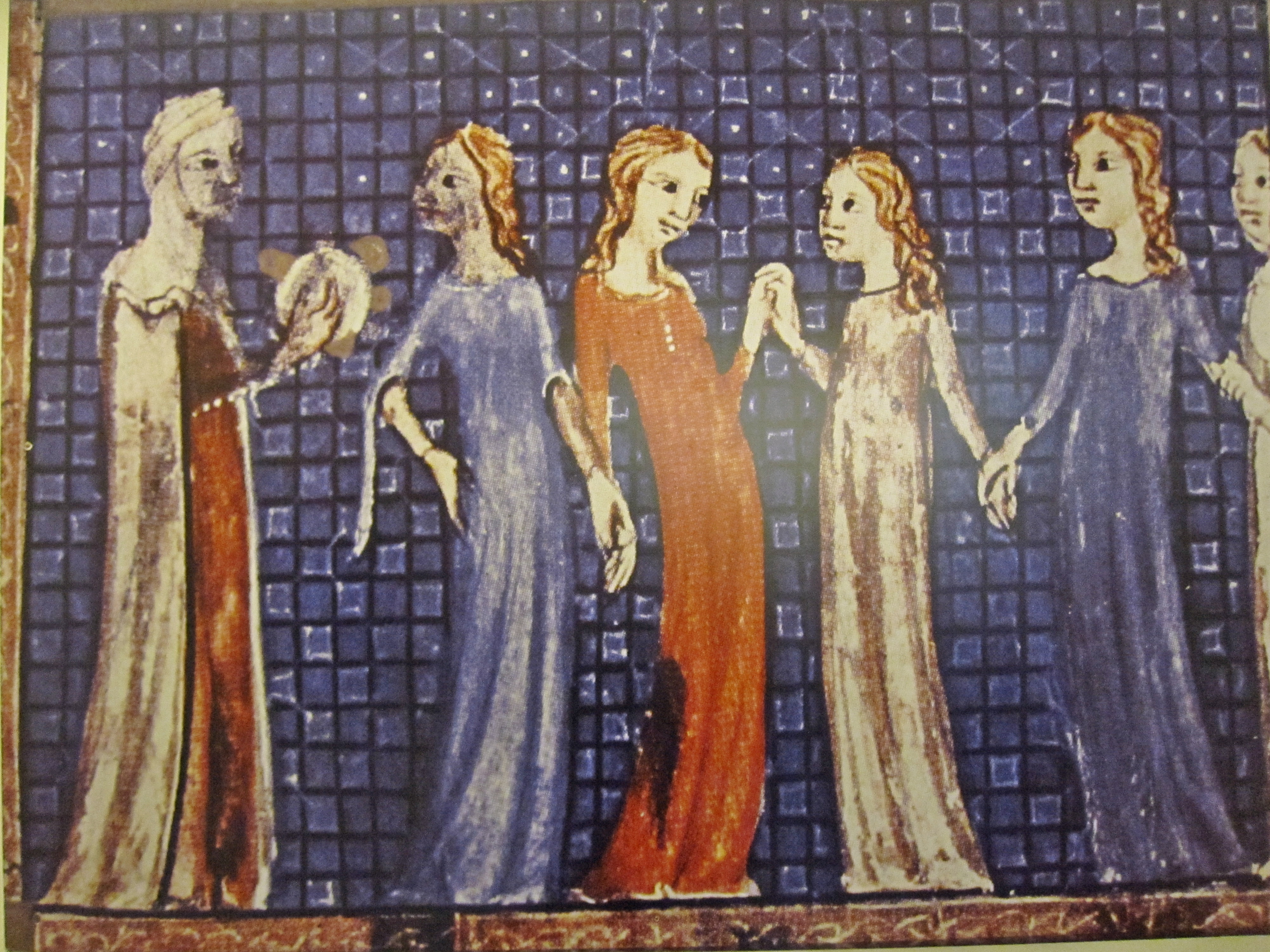 This is a photo of an exhibit at the Diaspora Museum, Tel Aviv - Beit Hatefutsot. The Note says: "And Miriam took a timbrel in her hand. (Exodus 15:20). Sarajevo Haggadah (?), Barcelona (?) , Manuscript on parchment, Spain, 14th Century. The National Museum, Sarajevo."